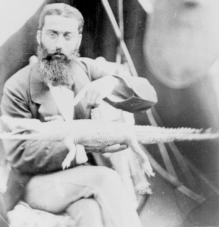 Xenophon Xenoudakis, a Greek medical doctor, in Khartoum (Sudan), photographed by French diplomat Louis Vossion in 1882